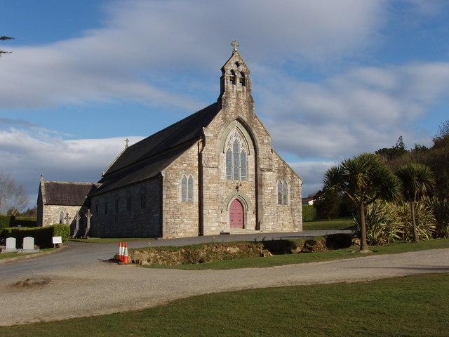 St. Alphonsus' Church, Barntown Designed by Augustus Welby Pugin, it was dedicated in 1851. This large Catholic church owes its existence to the ideas, fundraising and organisation of Very Rev. Patrick Murphy; before his work there was only a barn-like structure for worship in this part of the parish. See Taghmon Historical Society Journal volume 4 .